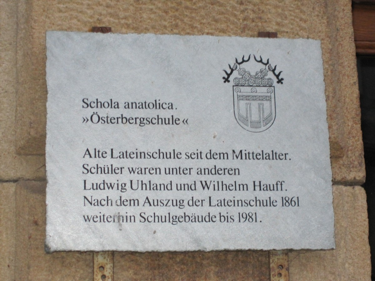 Memorial plaque to the former Schola anatolica in Tübingen (Germany)